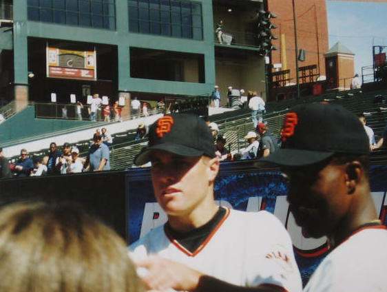 JT Snow (center) self created photograph by BurmaShaver, pd-self 23:49, 17 May 2006 . . BurmaShaver . . 562×424 (49 KB)